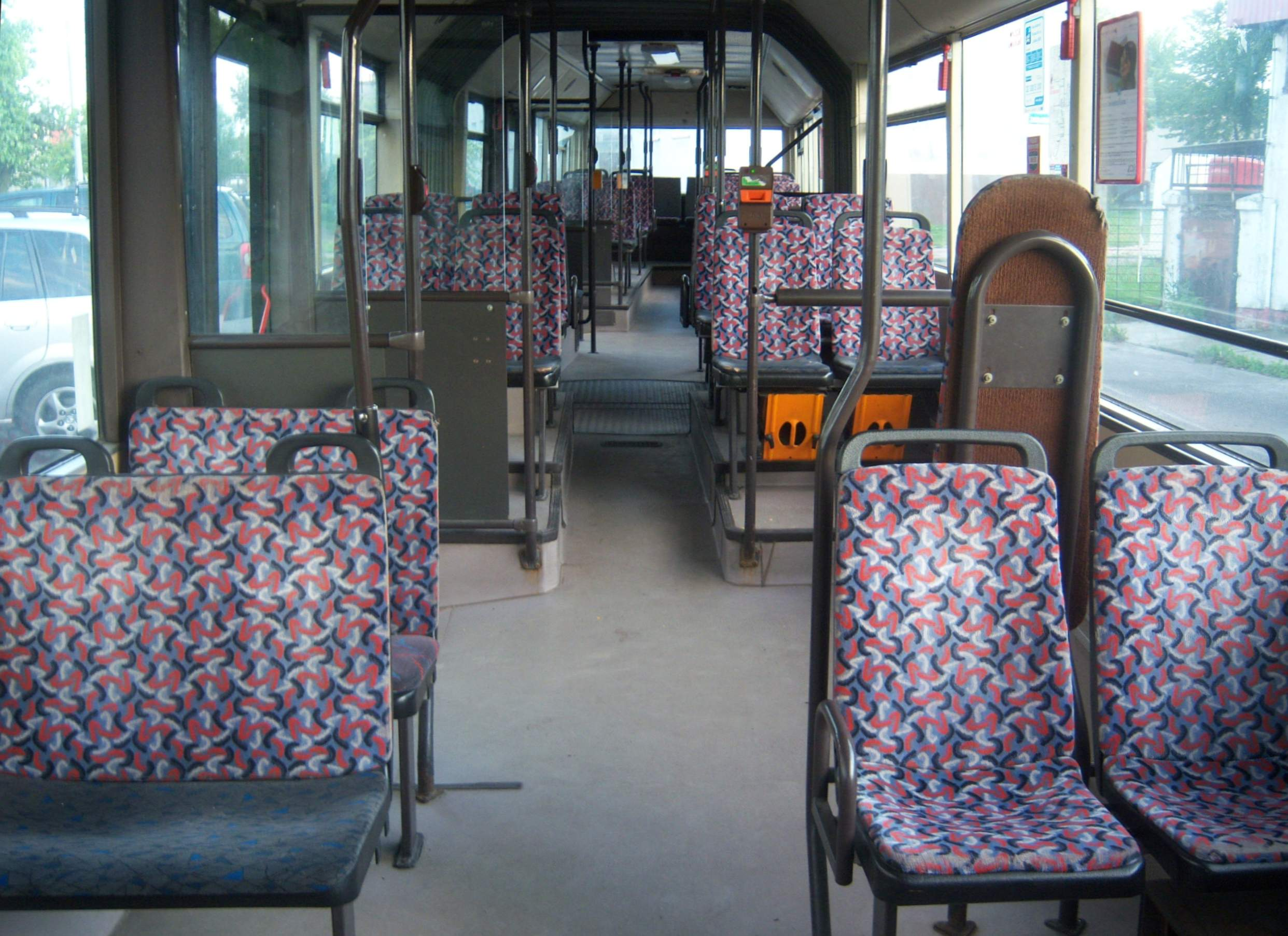 MAN NG272(2) bus (#270) interior. Built 1994, MZK Konin operator.